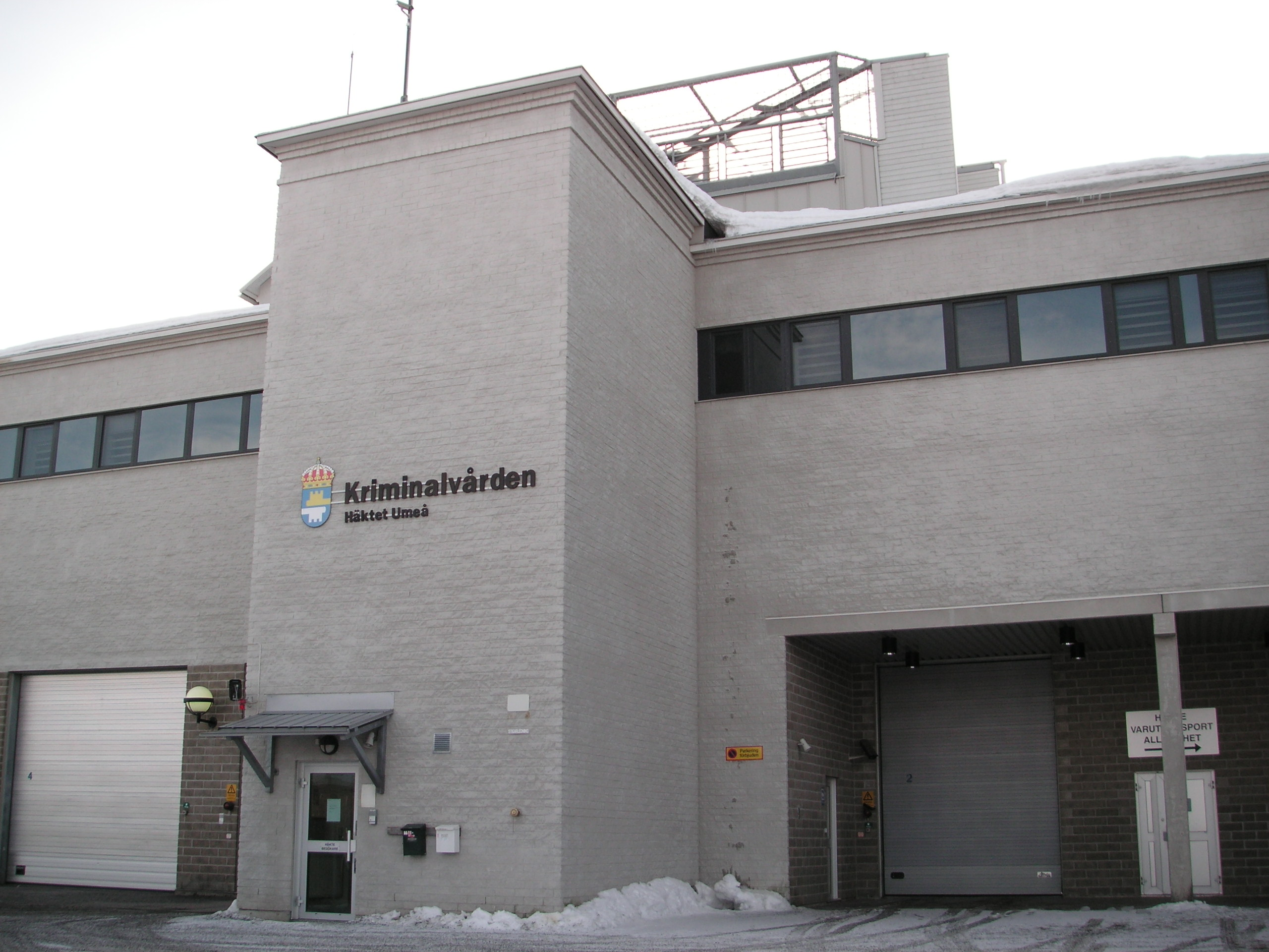 Remand prison (jail) in Umeå, Sweden.